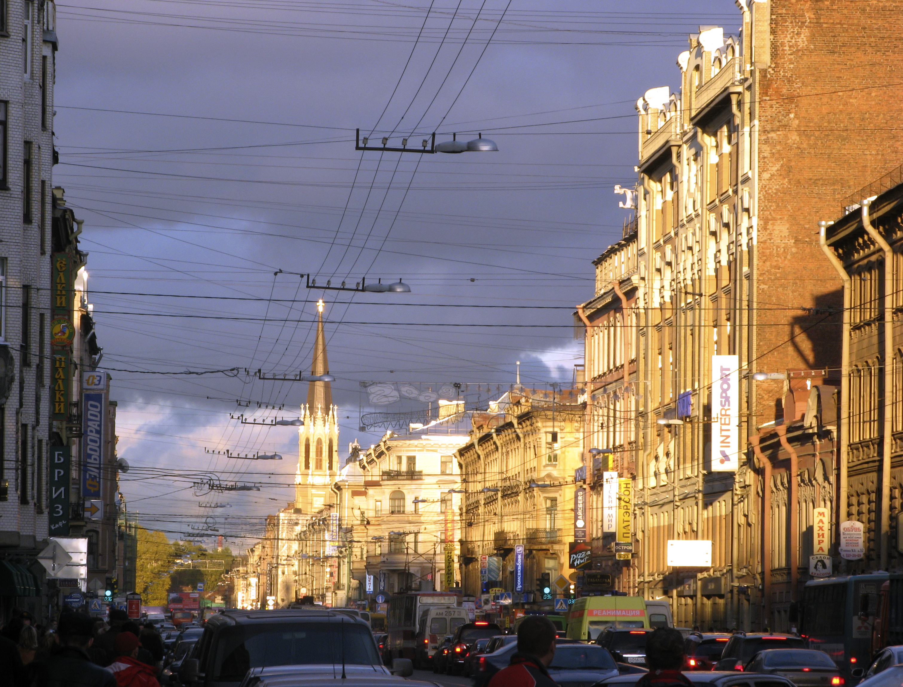 Sredniy Prospekt of Vasilievsky Island, building 39. Saint-Petersburg.